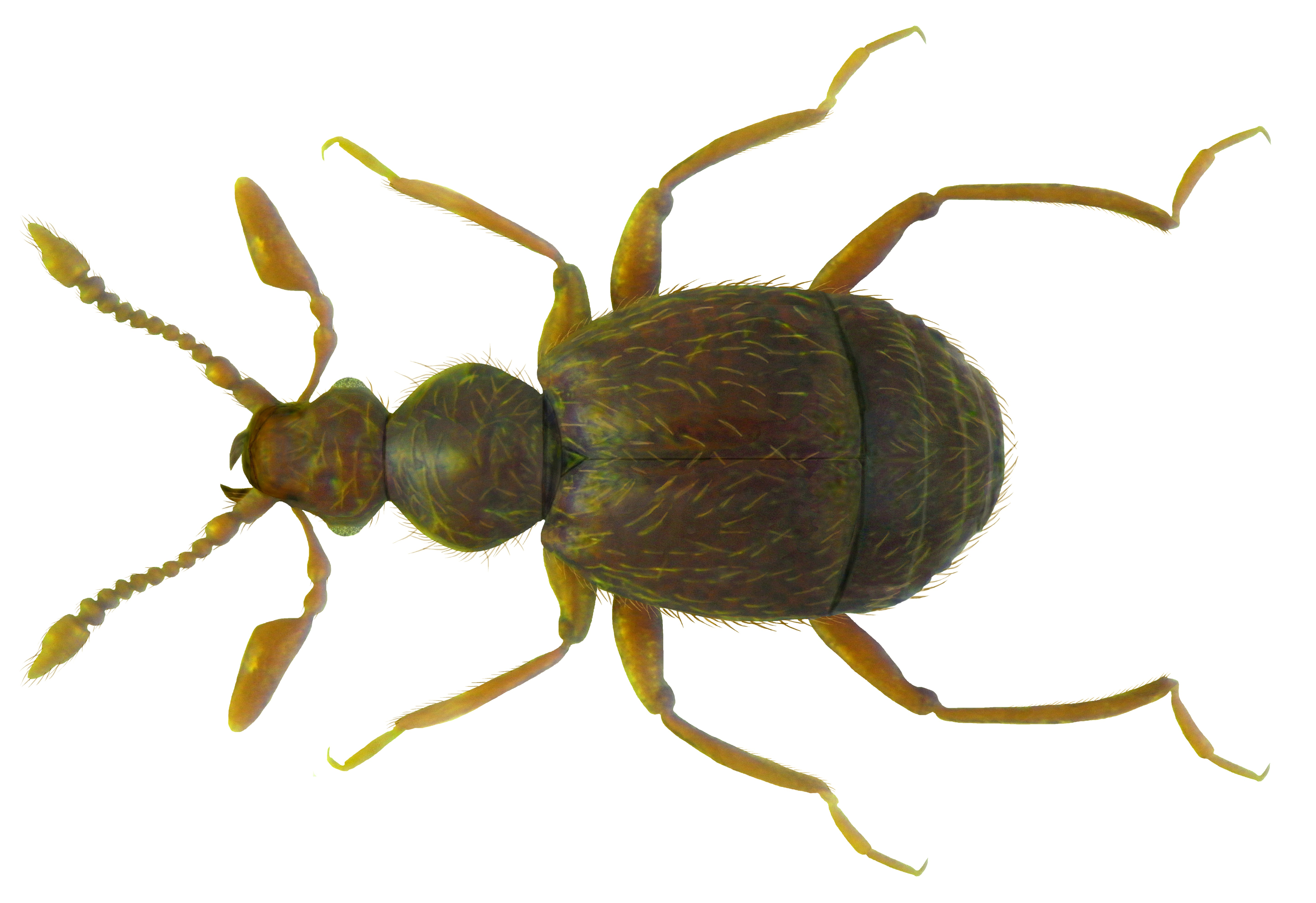 Family: Pselaphidae Size: 1.45 to 1.65 mm Distribution: Western, Northern and Central Europe Ecology: in decaying leaves and moss Location: Germany, Rhineland-Palatinate, Altenahr leg.det. J.Scheuern, 1988 Photo: U.Schmidt, 2011